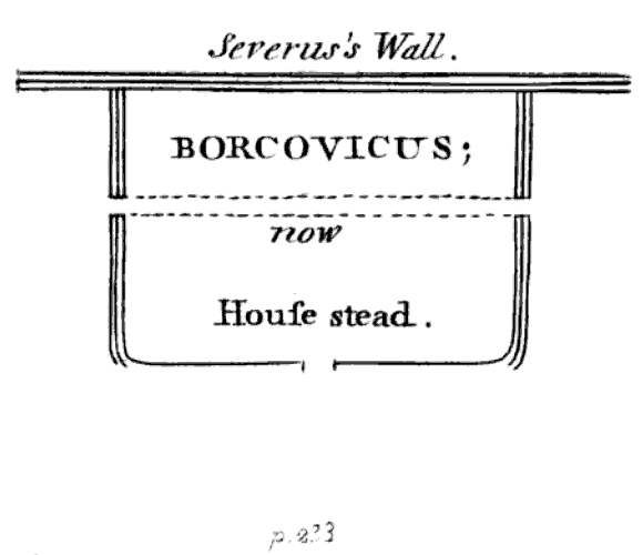 "BORCOVICUS; now House stead". Engraving from page 233 of The History of the Roman Wall by William Hutton. Printed by John Nichols and Son, London, 1802.